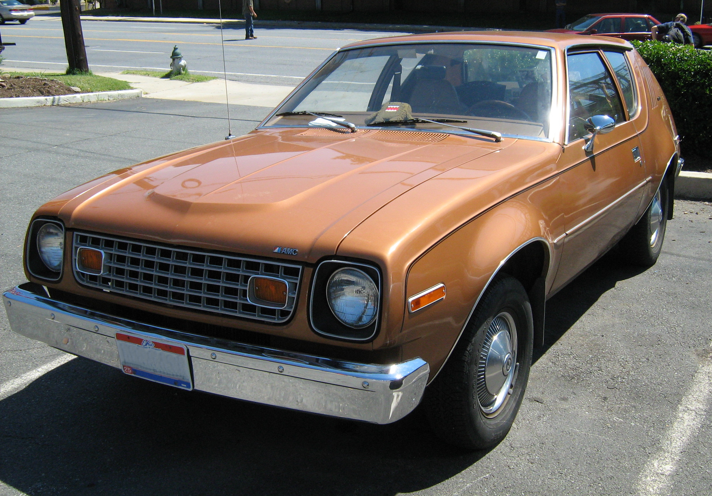 1978 American Motors Corporation (AMC) Gremlin. Base model two-door sedan.